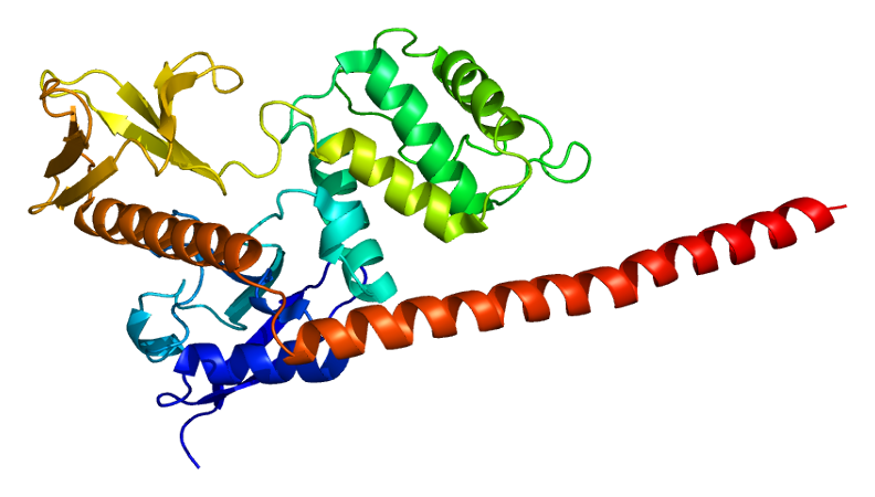 Structure of the MSN protein. Based on PyMOL rendering of PDB 1e5w.